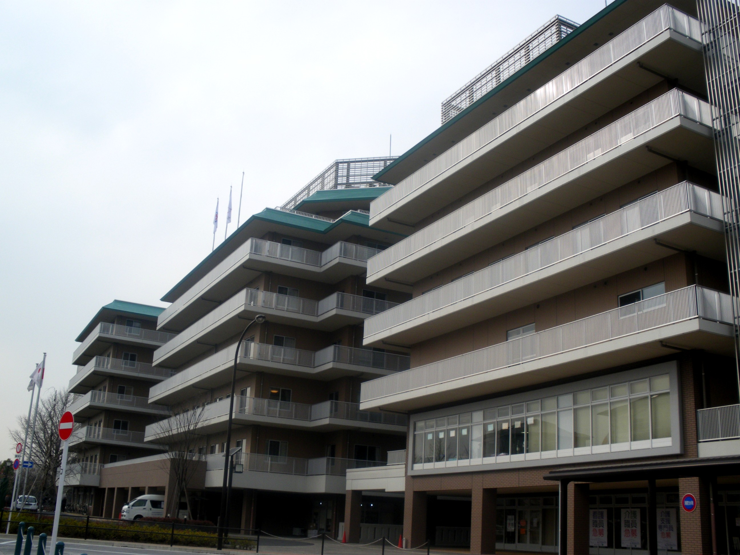 A photo of "Egota no Mori", a welfare facility at Egota,Nakano-ku,Tokyo,Japan.